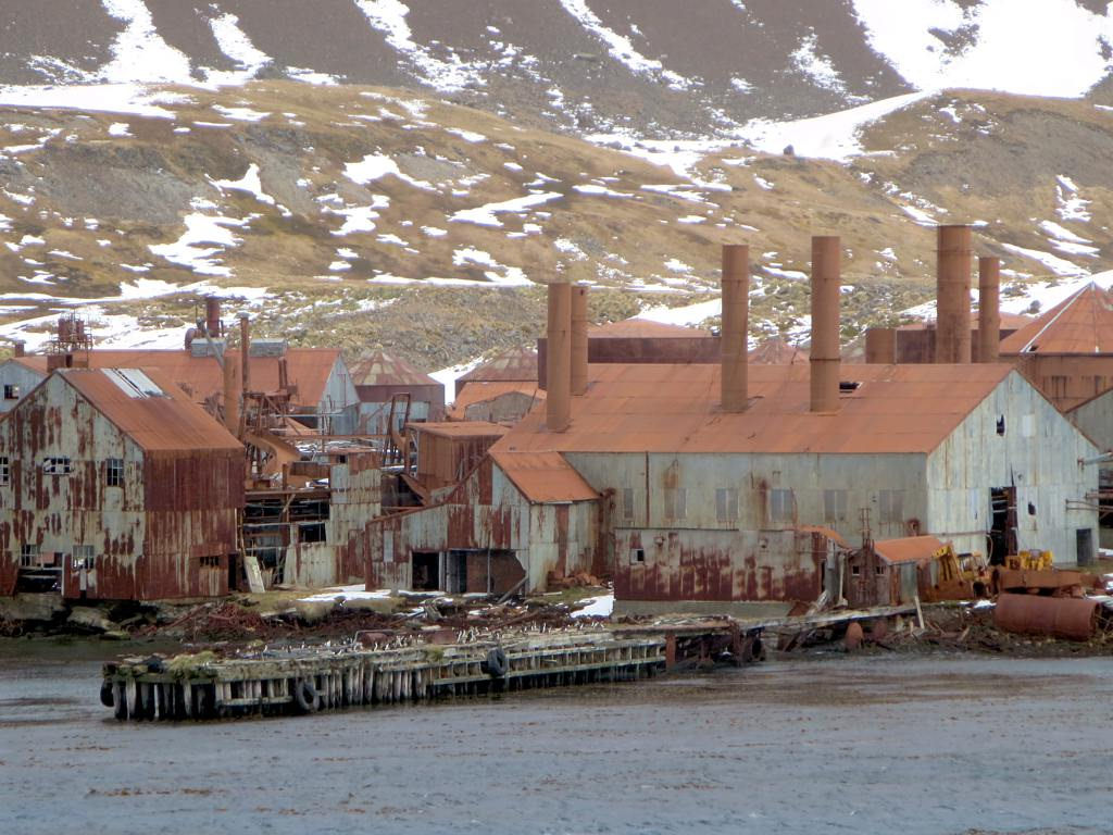 The ruins of the abandoned whaling station at Leith Harbour on northcentral South Georgia Island are a sad reminder of a destructive industry which persisted until the 1960s.